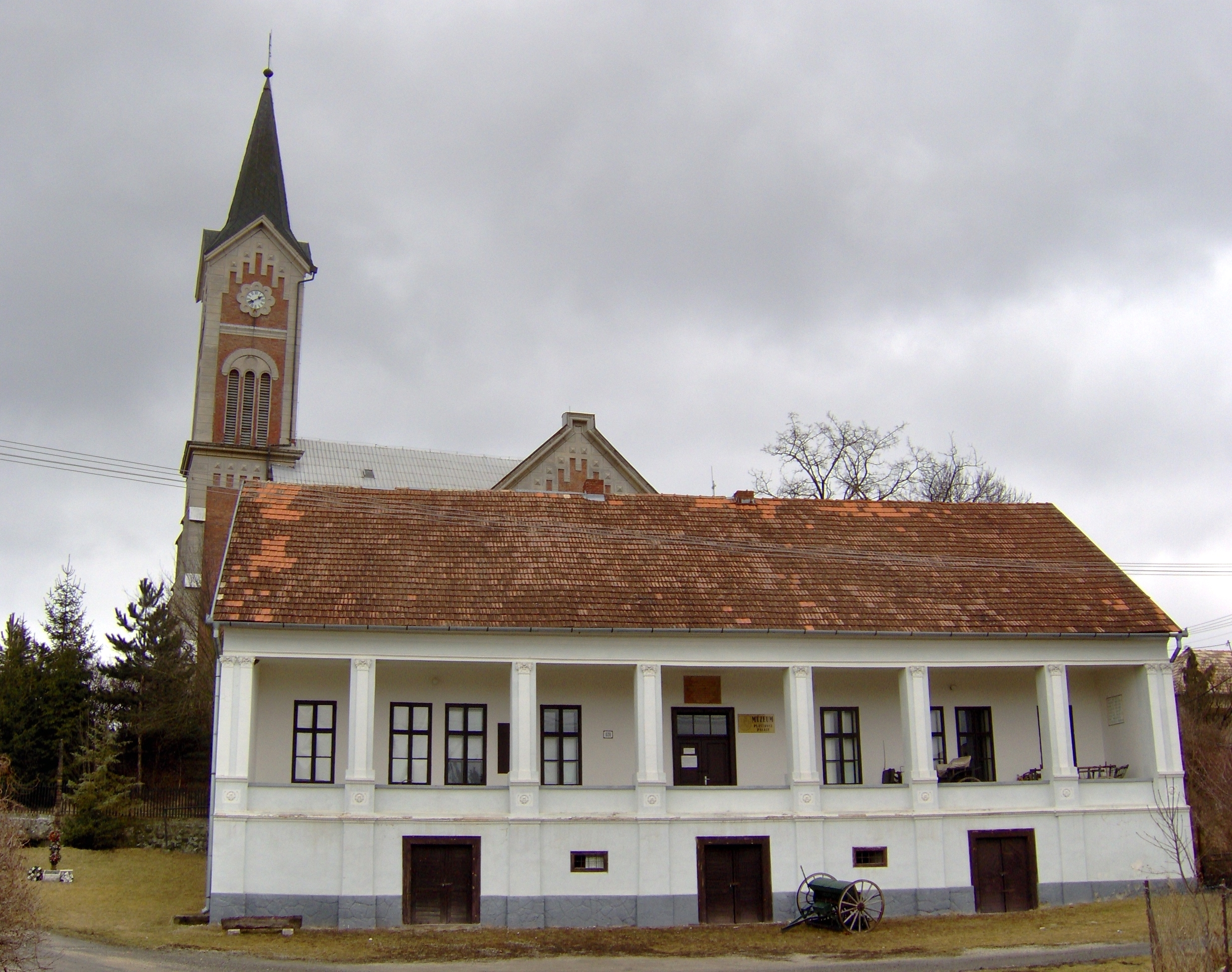 Museum in Plášťovce, Slovakia